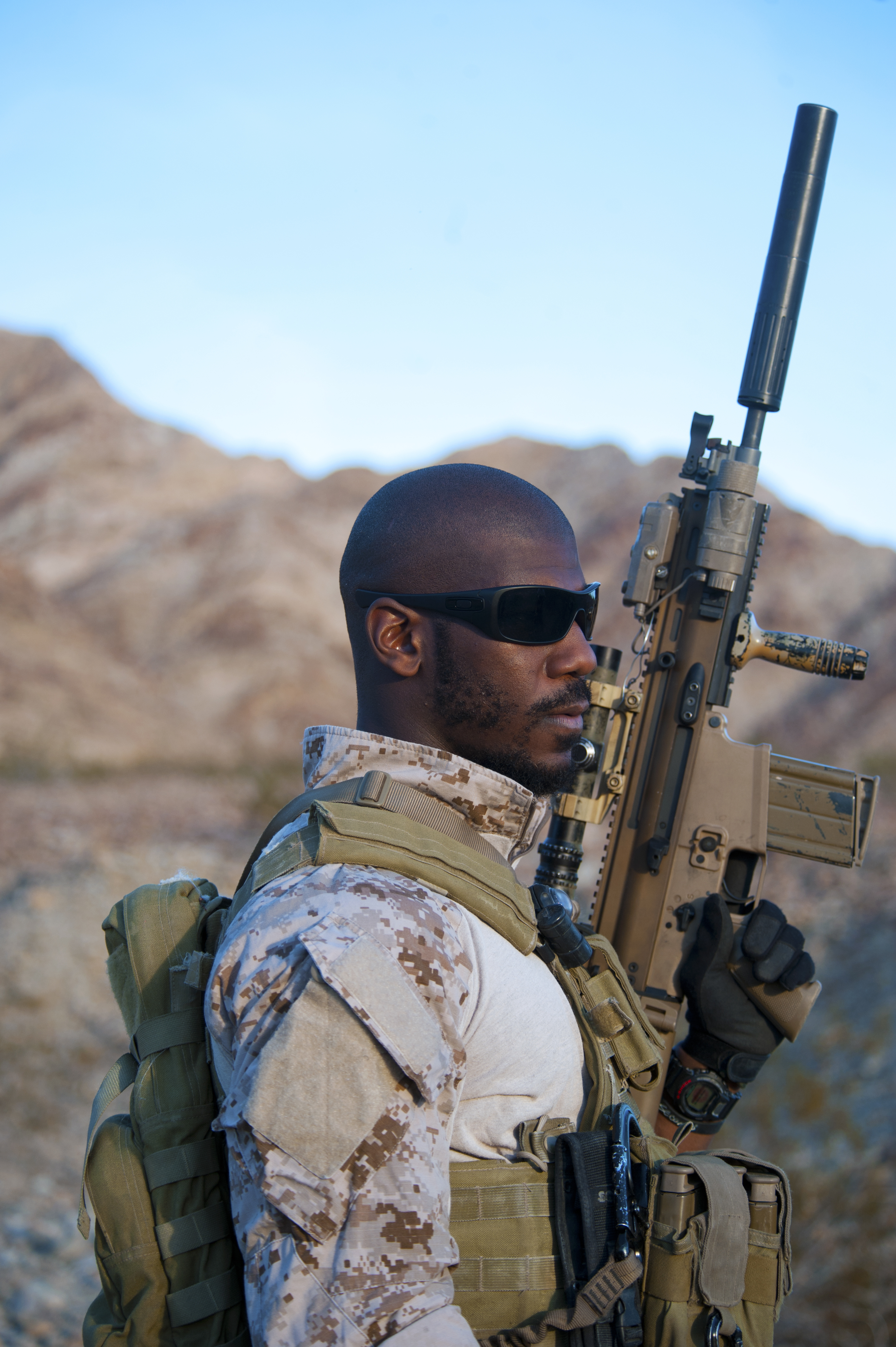 Navy Seals in a desert area.